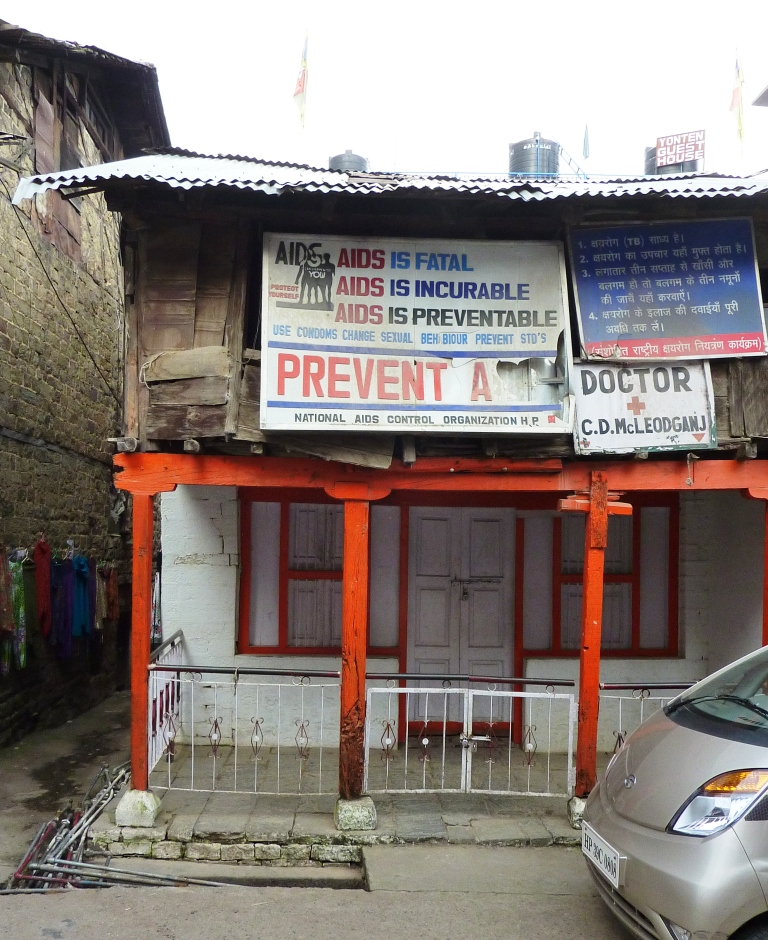 AIDS Clinic in McLeod Ganj, Upper Dharamshala, Himachal Pradesh, India.